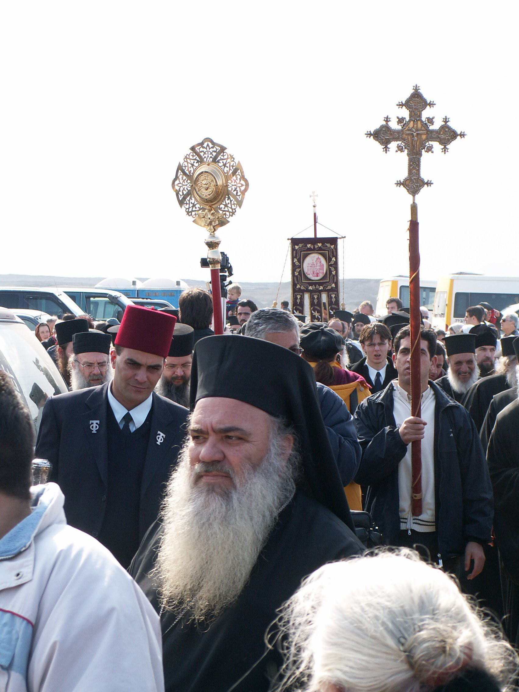 The Epiphany procession from the Monastery of St. John in the Jordan Valley to the baptismal place in the Yarden (Jordan river).